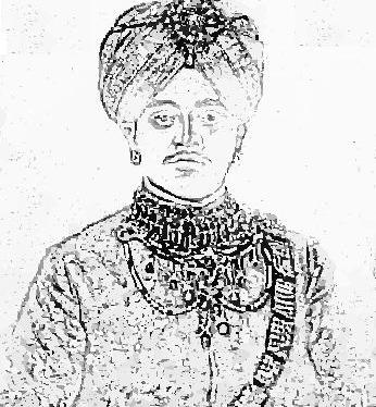 Picture of Raja Ganesha Danujamardandeva